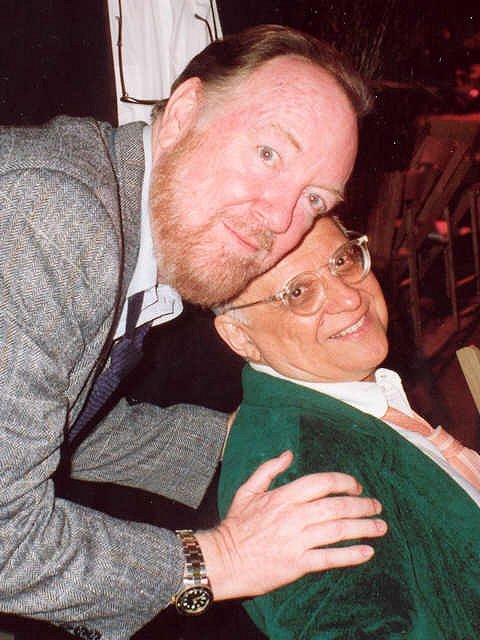 Jack Haley (on the left). Photo taken at the Air America film premiere, 1990.